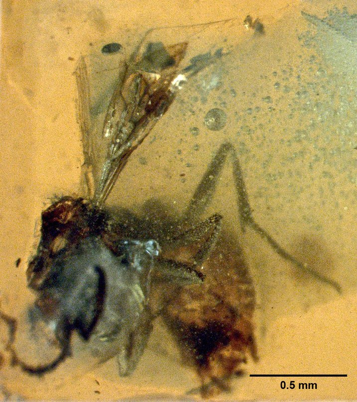 Closeup of the profile of Haidomyrmodes mammuthus holotype gyne. Specimen number MNHNA30162